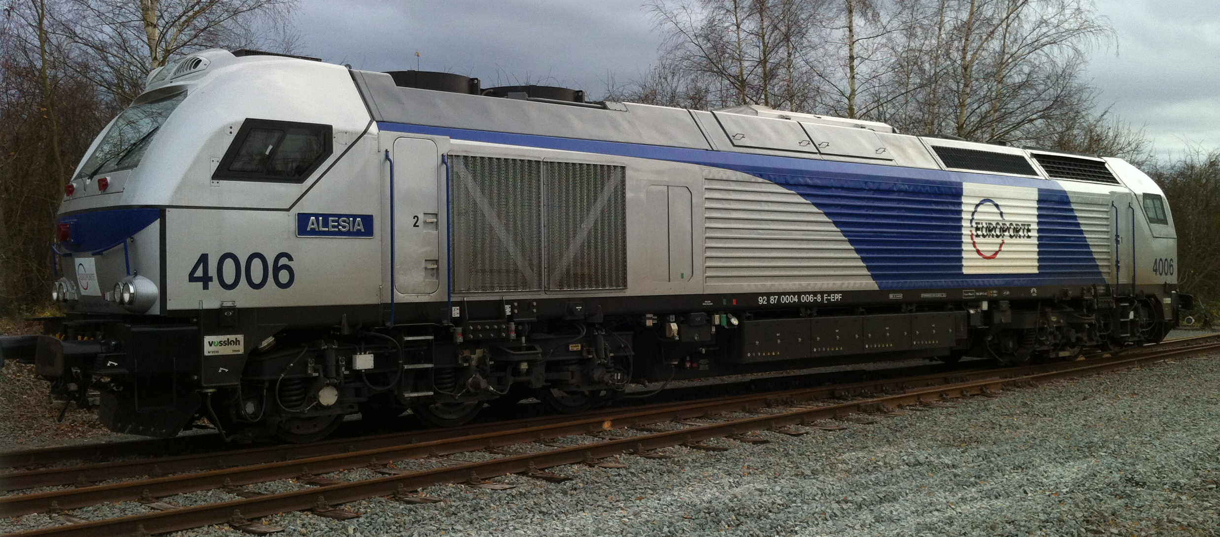 Vossloh Euro 4000 Europorte N°4006 "Alesia"